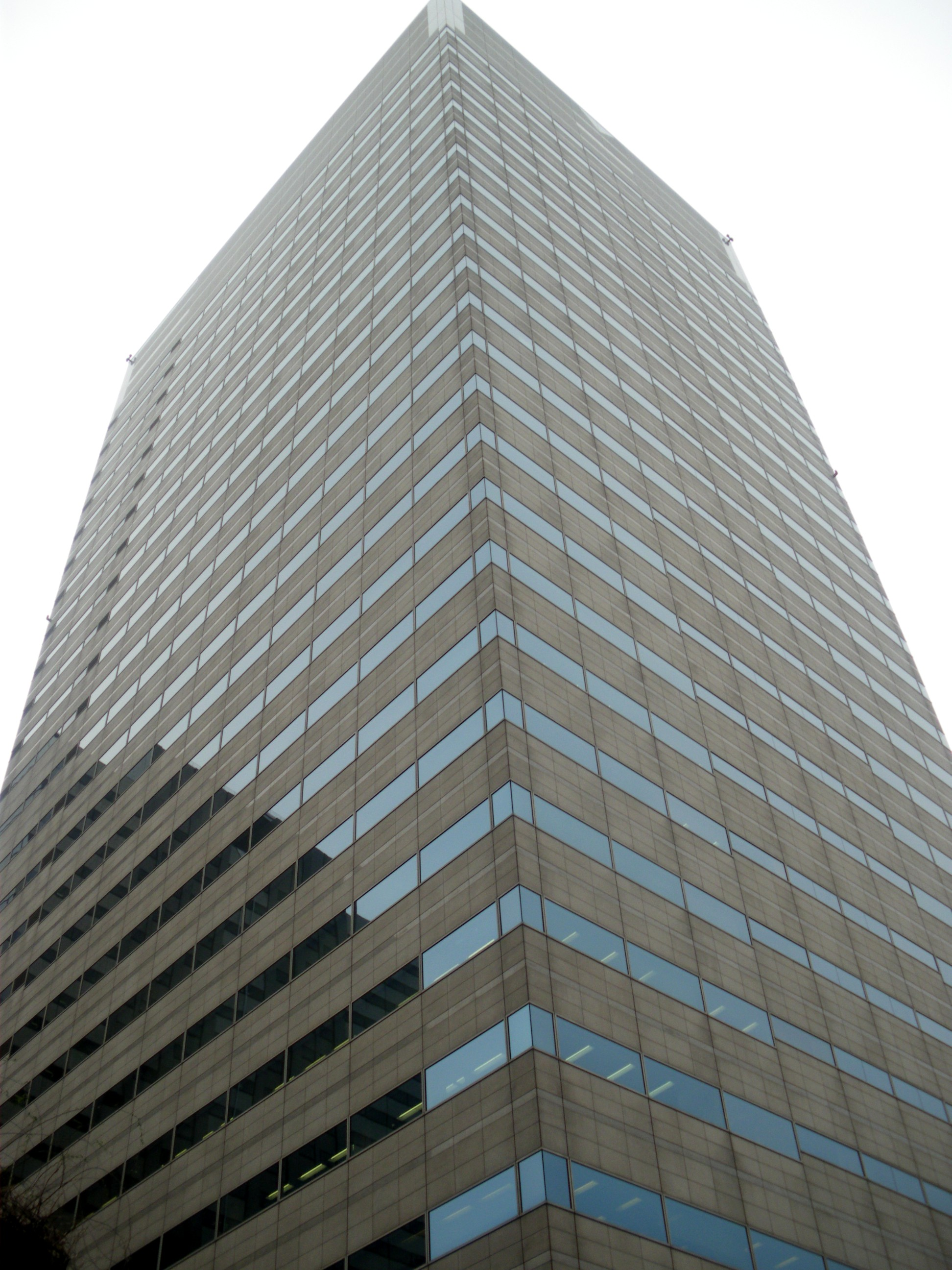 A photo of Tennouzu First Tower.Higashishinagawa,Shinagawa-ku,Tokyo,Japan.